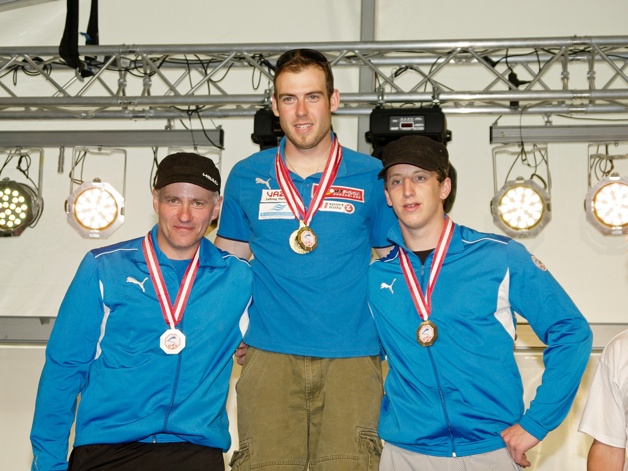 Austrian Grasski Championships 2010 in Rettenbach: Medal ceremony Mens Combined: 1st place and Austrian Champion: Michael Stocker (middle), 2nd place: Marcus Peschek (left), 3rd place: Daniel Gschwandtner (right)